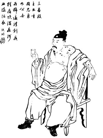 Qing dynasty portrait of Zhou Tai